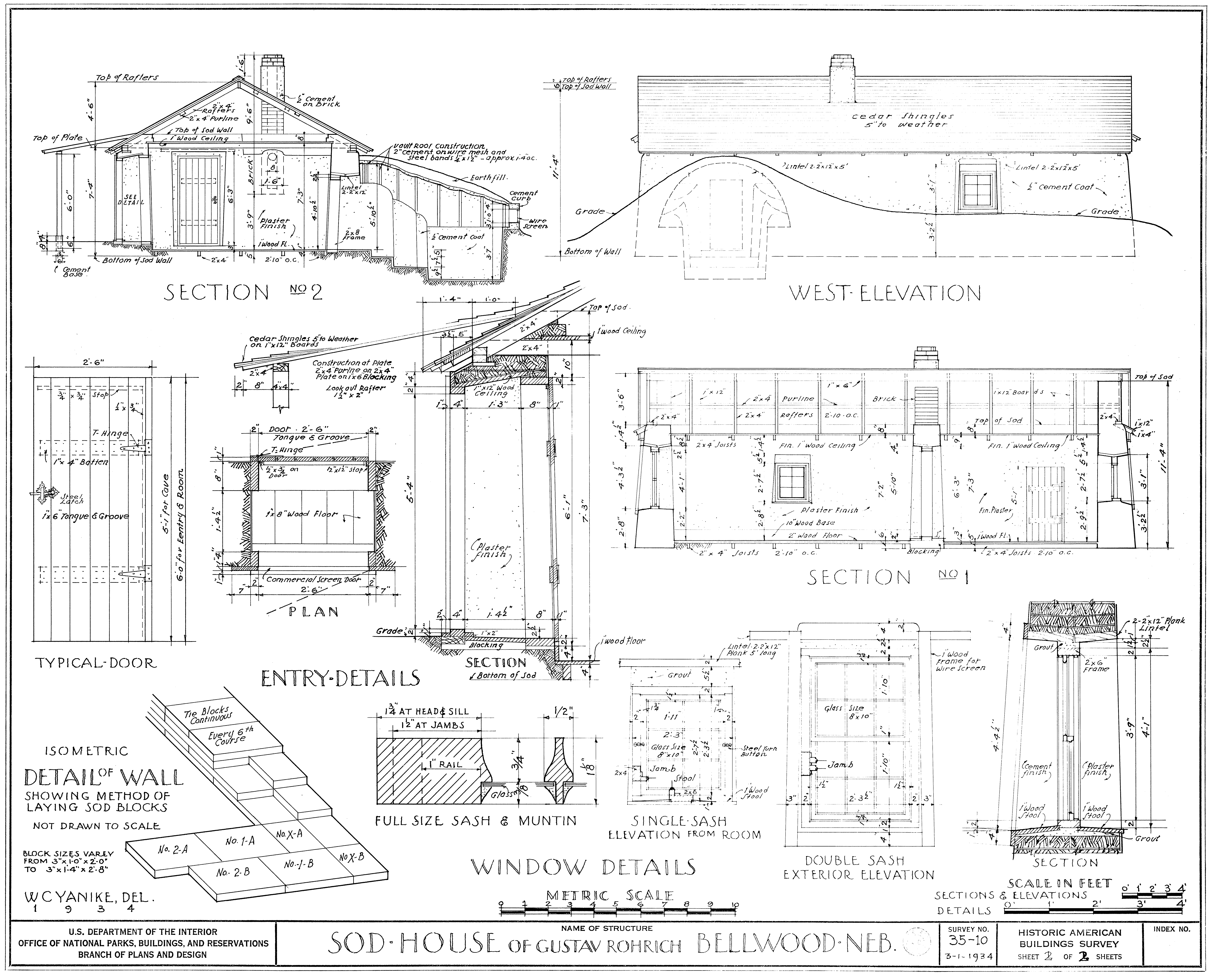 Schematic of the Gustav Rohrich Sod House, Bellwood, Nebraska, USA. This drawing is not covered by copyright, as it is the original product of the United States Federal Government (Department of the Interior). It is from the Library of Congress online collection (HABS/HAER). Library of Congress information is as follows. Item Title: Gustav Rohrich Sod House, Bellwood, Butler County, NE. Medium: Measured Drawing(s): 2 (18 x 24 in.). Photo(s): 5 (5 x 7 in.). Data Page(s): 1 plus cover page. Call Number: HABS NEB,12-BELWO.V,1-. Created/Published: Documentation compiled after 1933. Survey number HABS NE-35-10. Unprocessed field note material exists for this structure (9). Building/structure dates: 1883 initial construction. Subjects: NEBRASKA--Butler County--Bellwood. Craig, Fritz, historian, Yanike, W. L., photographer, Yanike, Walter C., delineator. Collection: Historic American Buildings Survey (Library of Congress), Library of Congress, Prints and Photograph Division, Washington, D.C. 20540 USA.